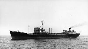 RFA WAVE DUKE underway